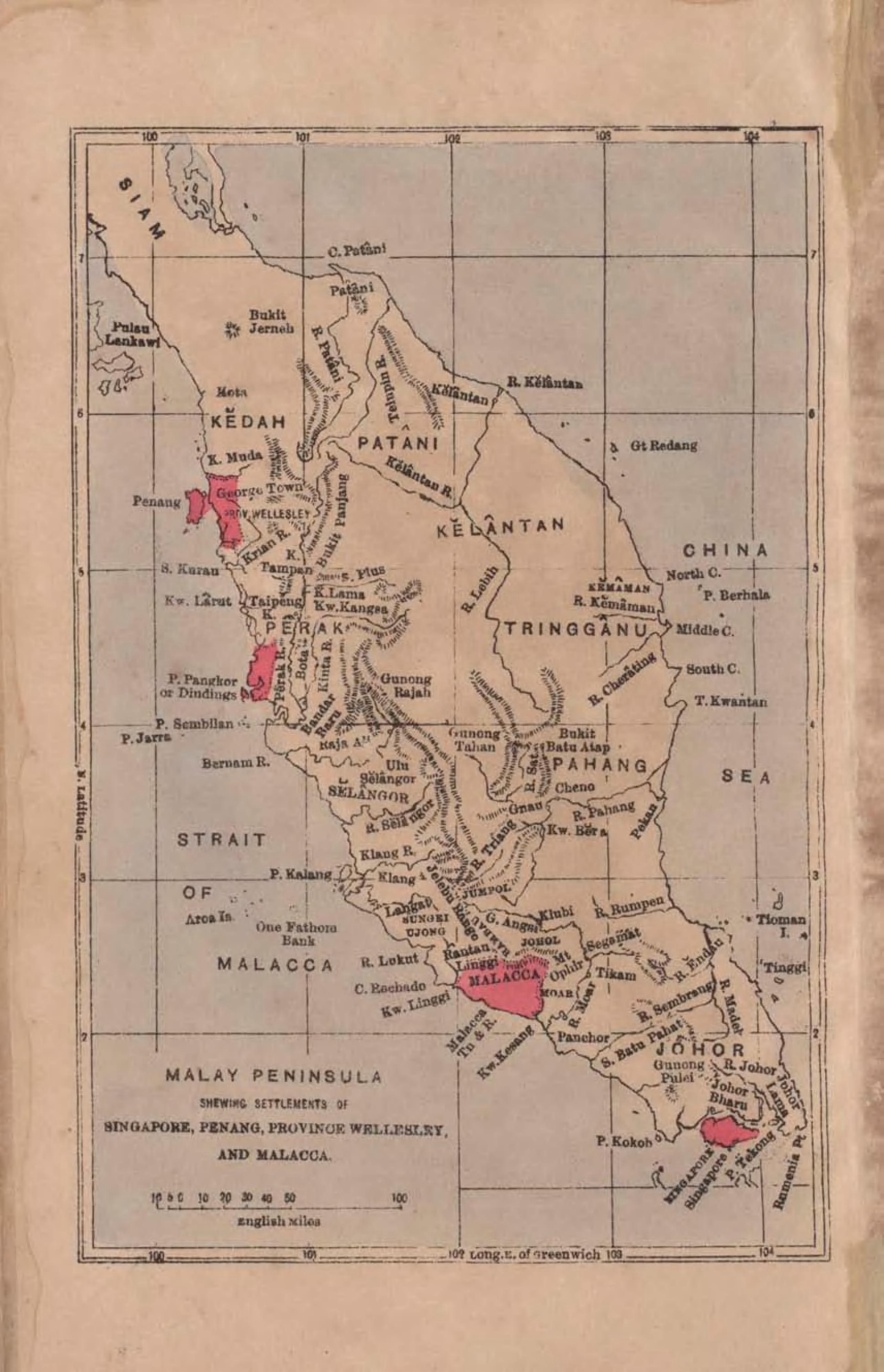 A geography of the Malay Peninsula and surrounding countries.